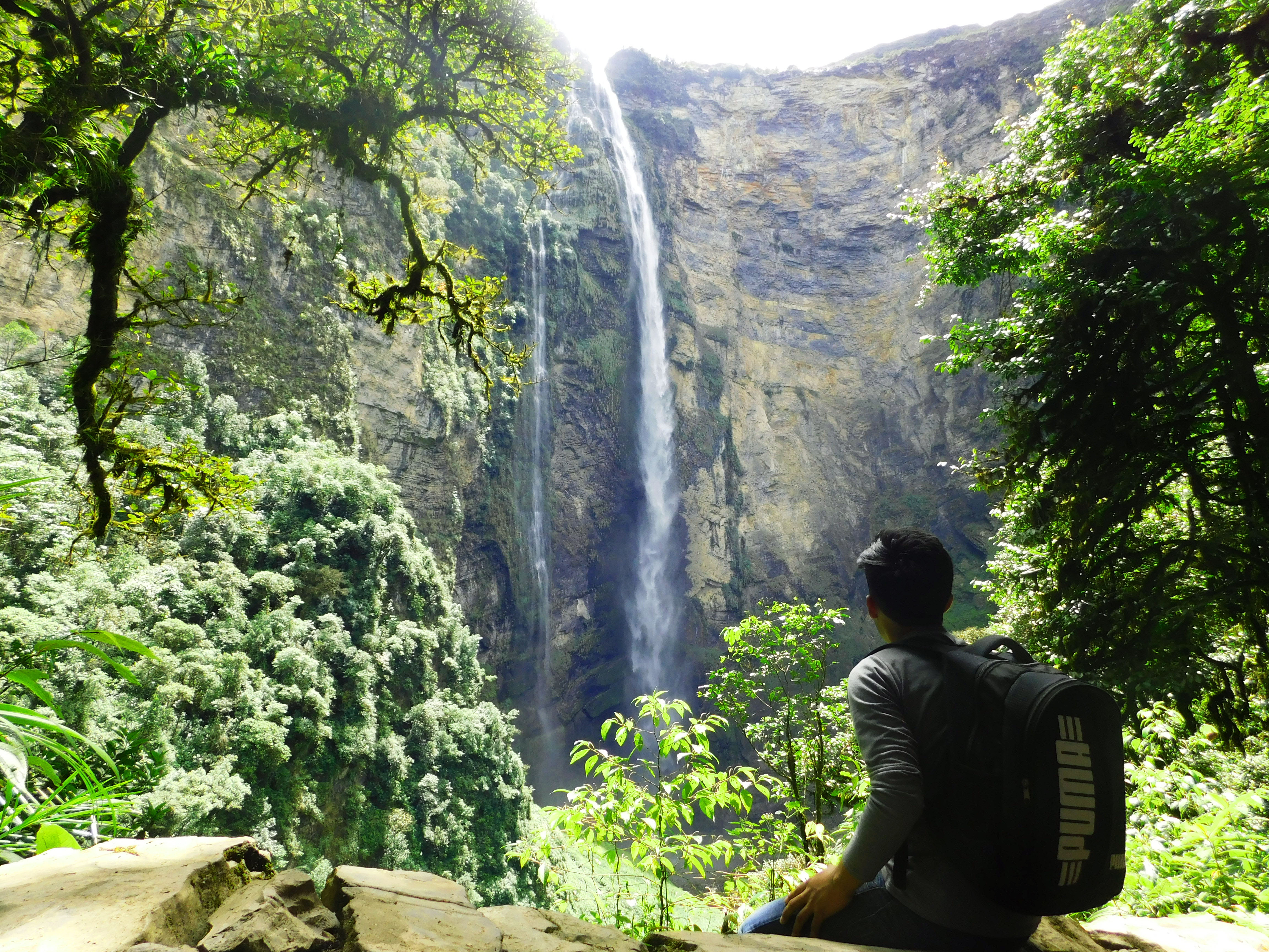 Waterfall Gocta